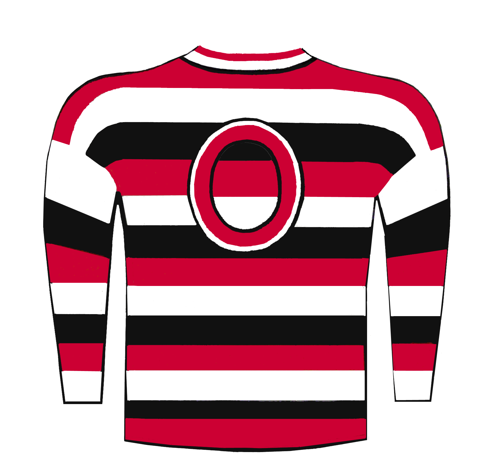 Likeness of hockey jersey used by Sens club in 1933